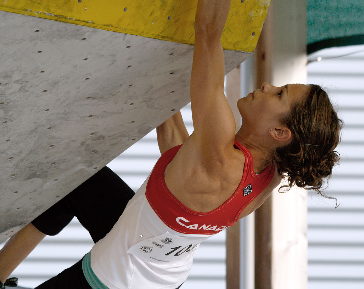 Thirza Carpenter during qualifications at the IFSC Boulder Worldcup Vienna 2010.